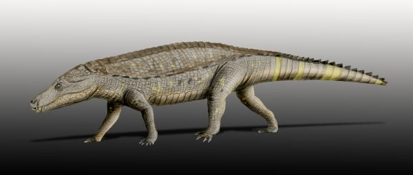 Armadillosuchus